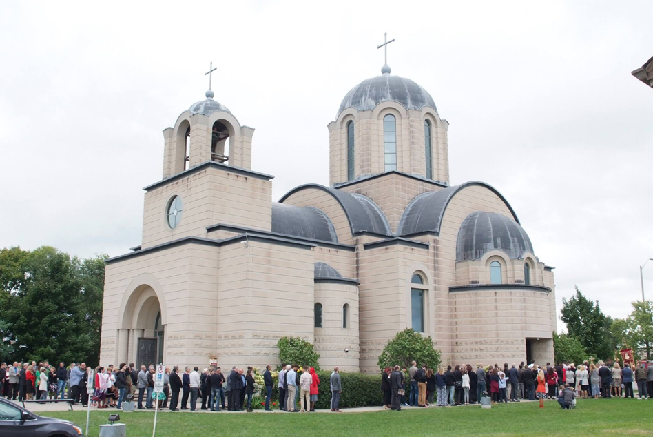 The All Serbian Saints Serbian Orthodox Christian Church in Mississauga, Ontario, Canada.